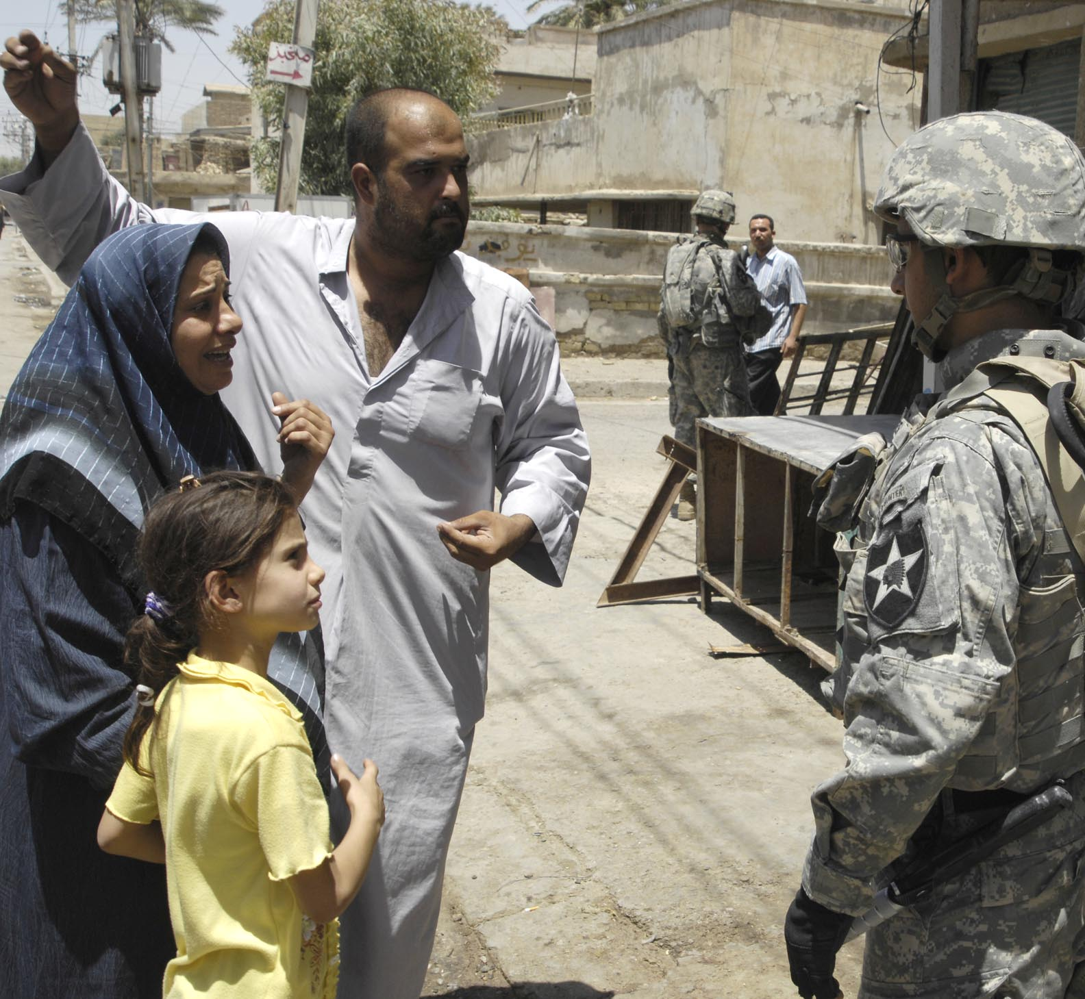 A U.S. Army Soldier with 4th Platoon, Delta Company, 2nd Battalion, 12th Infantry Regiment, 2nd Brigade Combat Team, 2nd Infantry Division out of Fort Carson, Colo., talks with local residents about whose house was struck by small arms fire by insurgent forces in the area of Dora in southern Baghdad, Iraq